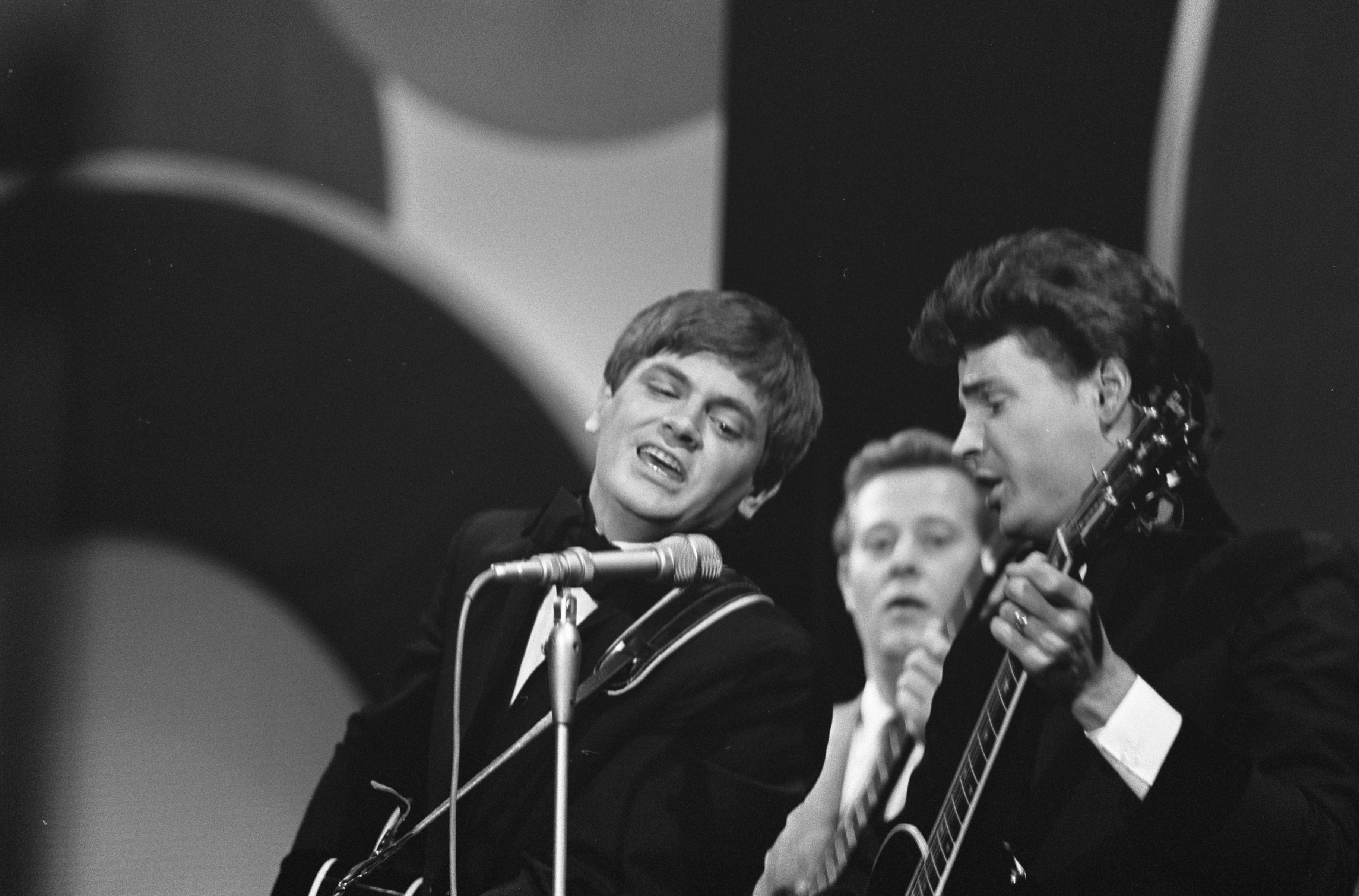 Everly Brothers at Grand Gala du Discque (The Netherlands), 2 Oct. 1965